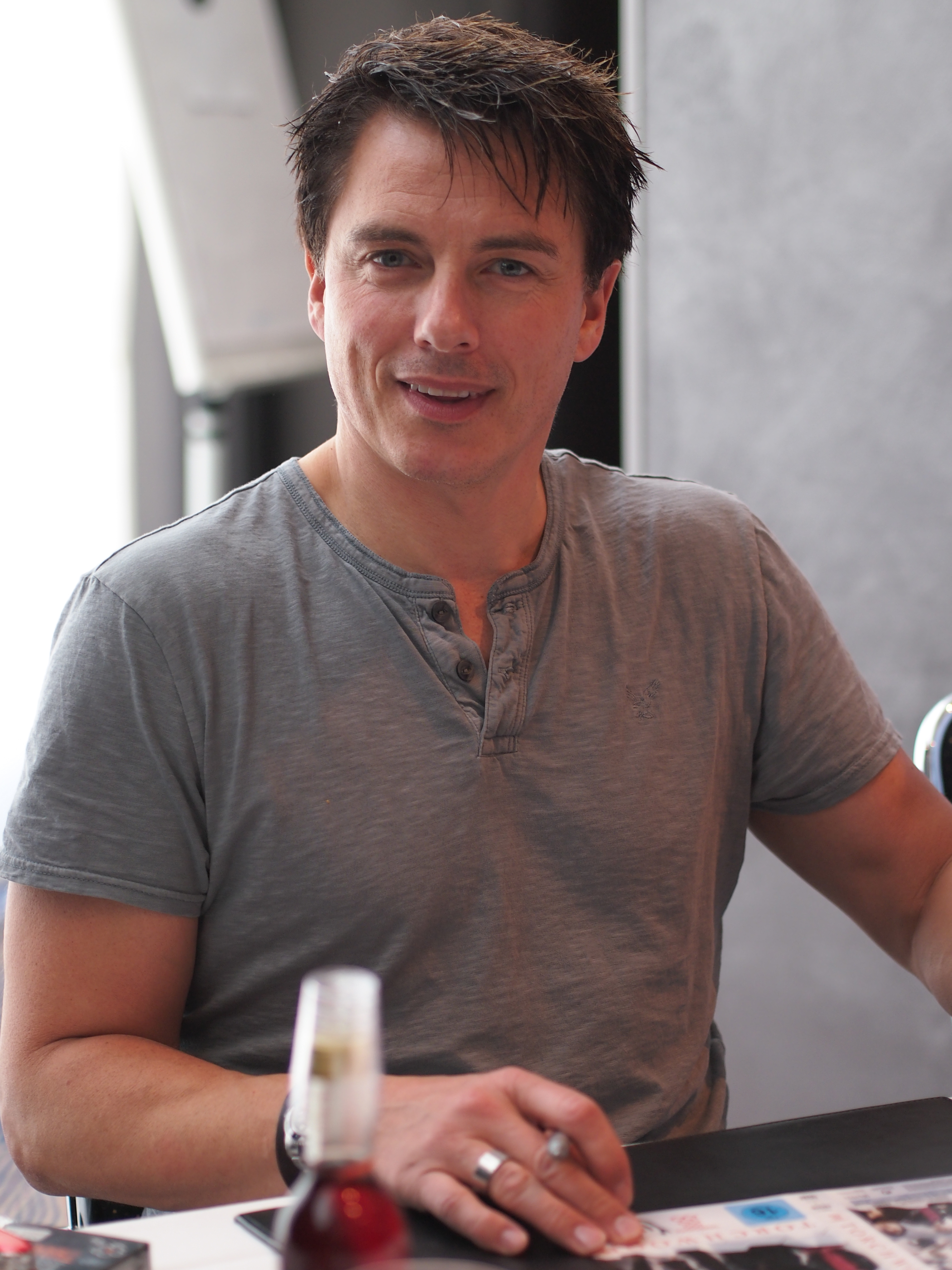 John Barrowman